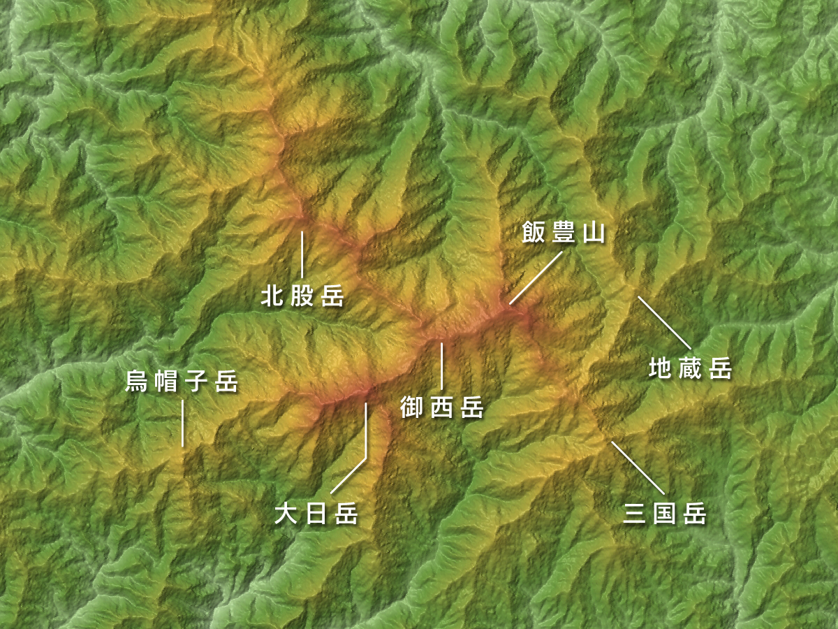 Around Mount Iide in Iide Mountains, Tōhoku region, Honshu, Japan.